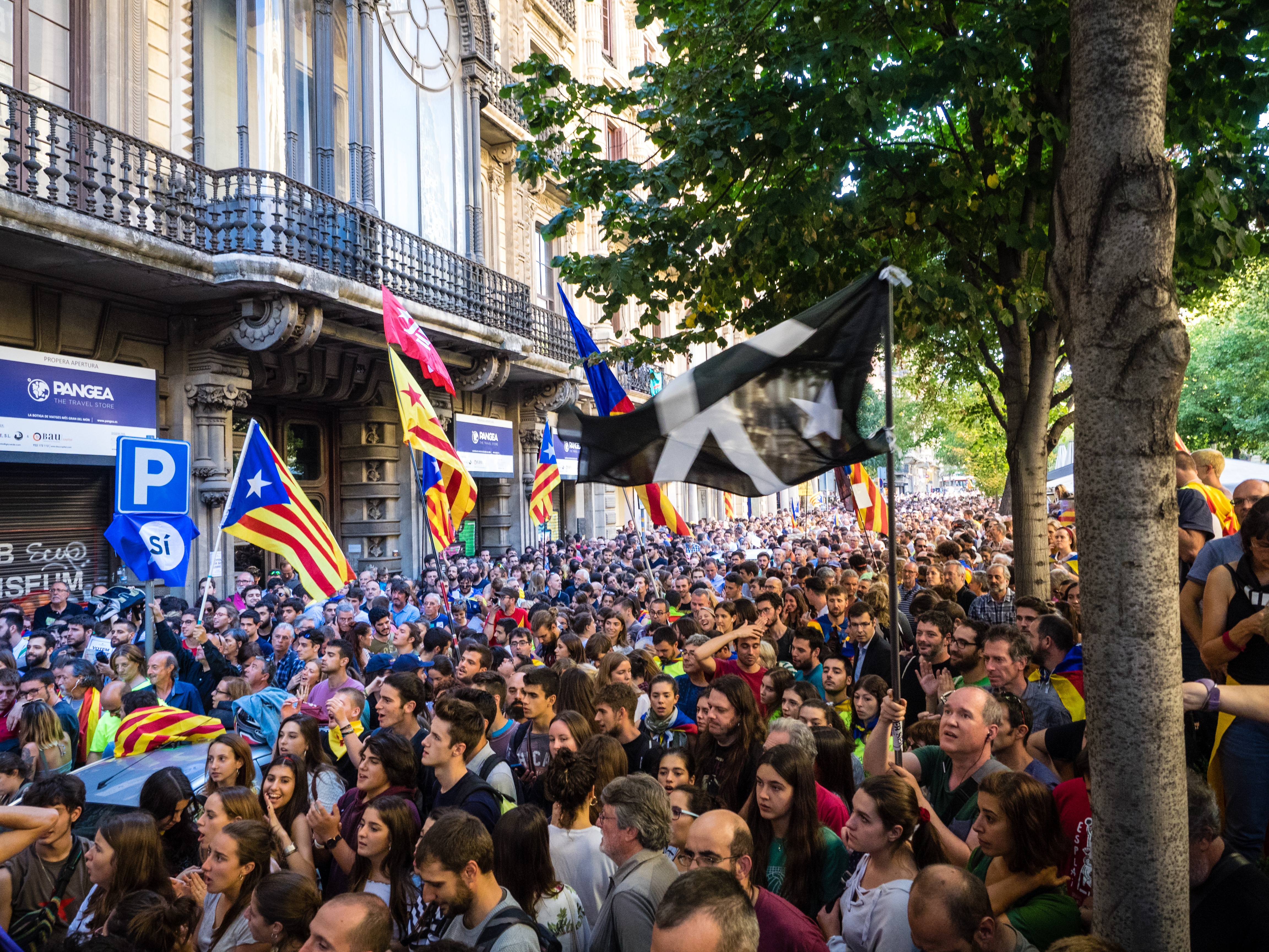 20S demonstration in Barcelona Environment in front of the headquarters of the Catalan Ministry of economy